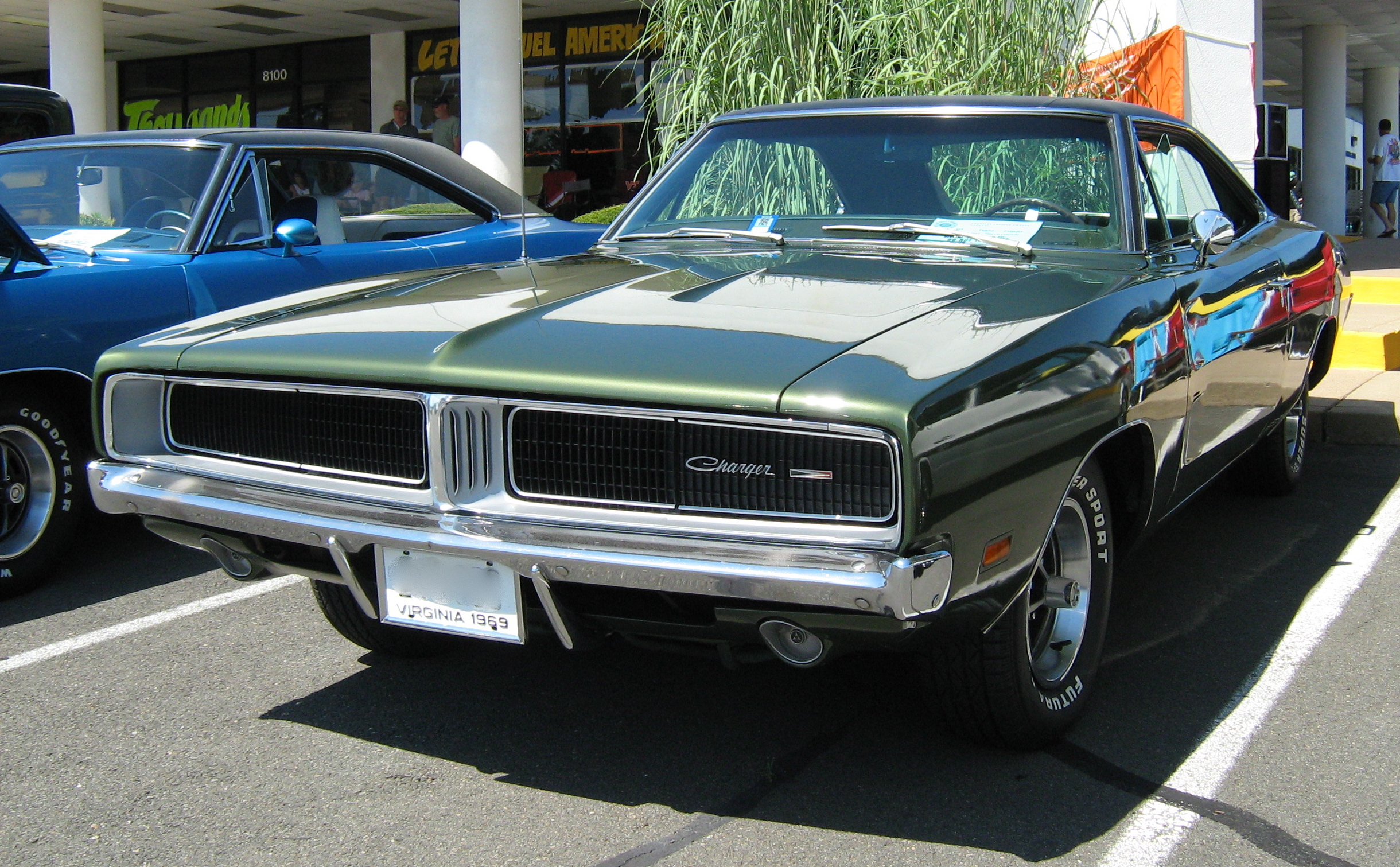 1969 Dodge Charger 2-door hardtop - front